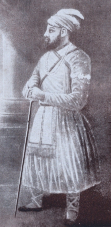 This is the court (self portrait) painting of a Nawab of Bengal 300 years ago.